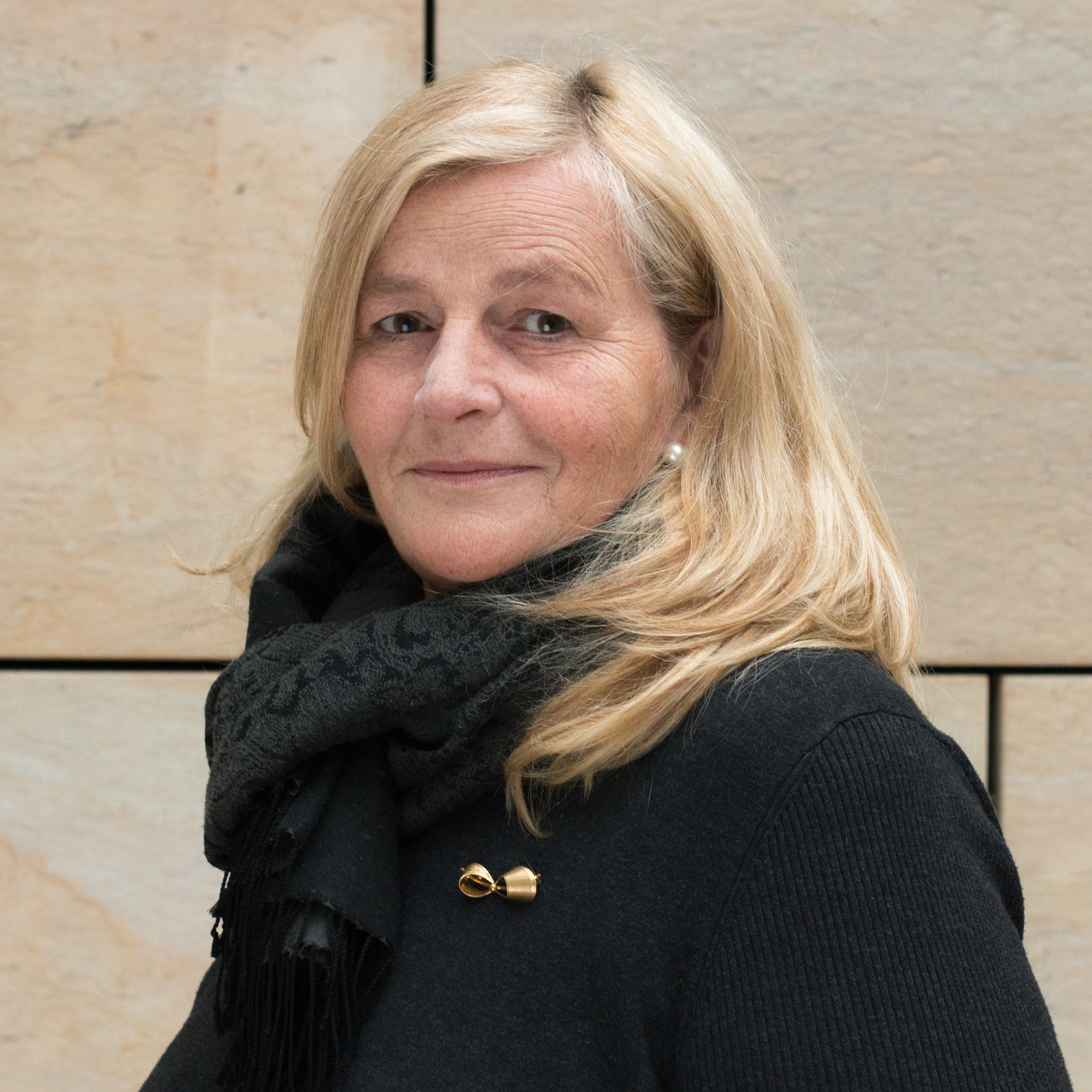 Brigitte Dmoch-Schweren, North Rhine-Westphalian SPD-politician and member of the Landtag of North Rhine-Westphalia